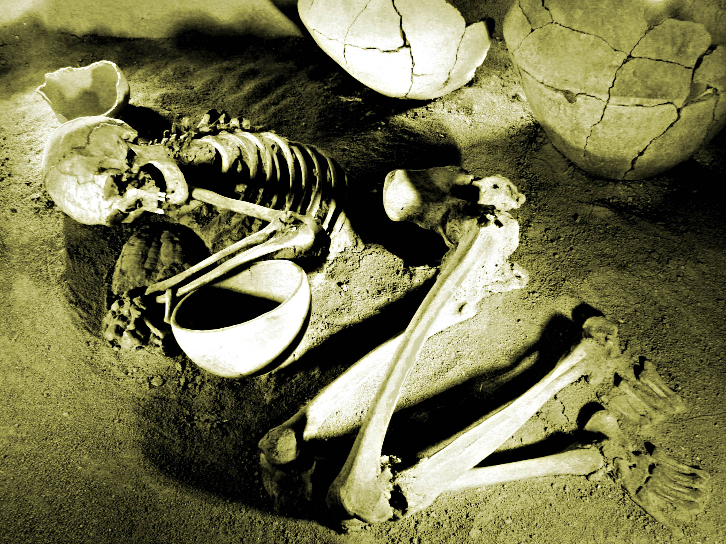 Description from Flickr: "This skull is in a museum, at Ecbatana ancient hills of Hamadan city, Iran. The description behind it wrote: "Squat Burial. (Late in the 2nd millenium BC till early in the 1st millenium BC). Place of discovery: Kurijan hills" As I know, in some old age, our ancestors used to bury the dead in such squat manner, just like a chrysalis (germ) of a baby, and with some foods near them, because they thought they will reborn such as a baby... Added to flickr explore (interestingness) page of 2 September 2006."